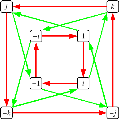 The Cayley graph of the quaternion group of order 8. The red arrows represent multiplication on the right by i; the green arrows represent multiplication on the right by j.